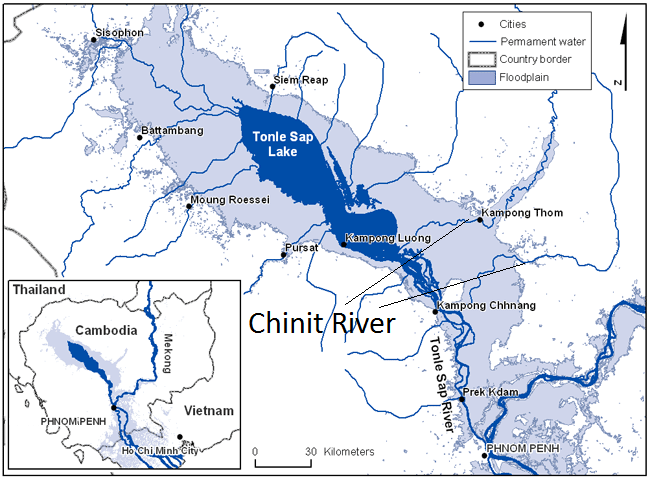 Map of the Chinit River (Tonlé Sap river) and Tonle Sap Lake in Cambodia. Tributaries of the Mekong. GIS data used in the map from Mekong River Commission. Map done by using ArcGIS. File type: PNG-8.